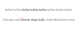 Diagram explaining the sentence construction of the eight Buffalo sentence.